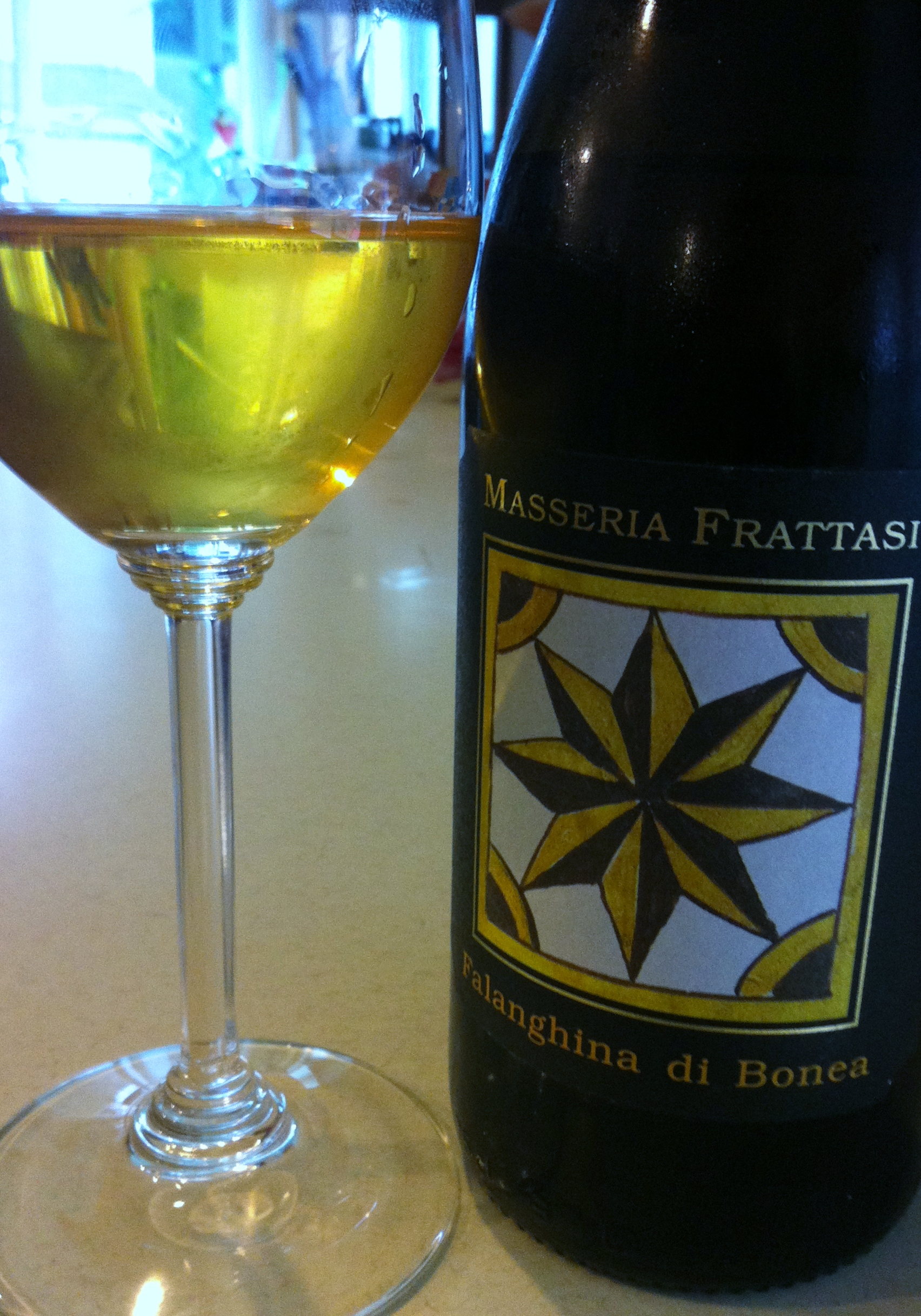 Italian Falanghina wine from the Campania region